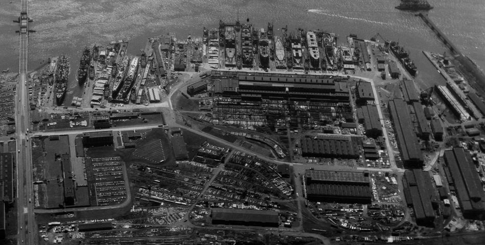 Aerial view of the Federal Shipbuilding & Dry Dock Company, Kearny, New Jersey (USA), looking west, 22 May 1945.